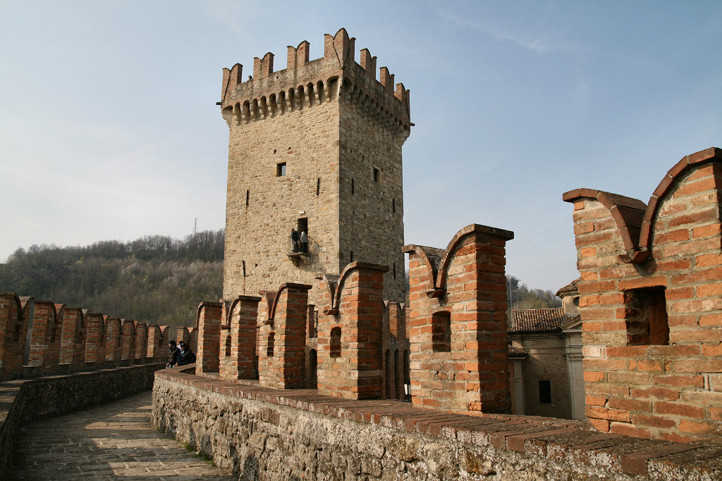 Vigoleno Castle (PC), Italy